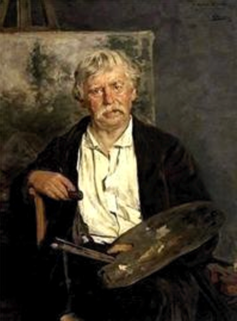 Portrait of César de Cock (1823–1904), Belgian painter and engraver by Gustave Vanaise (1854–1902).